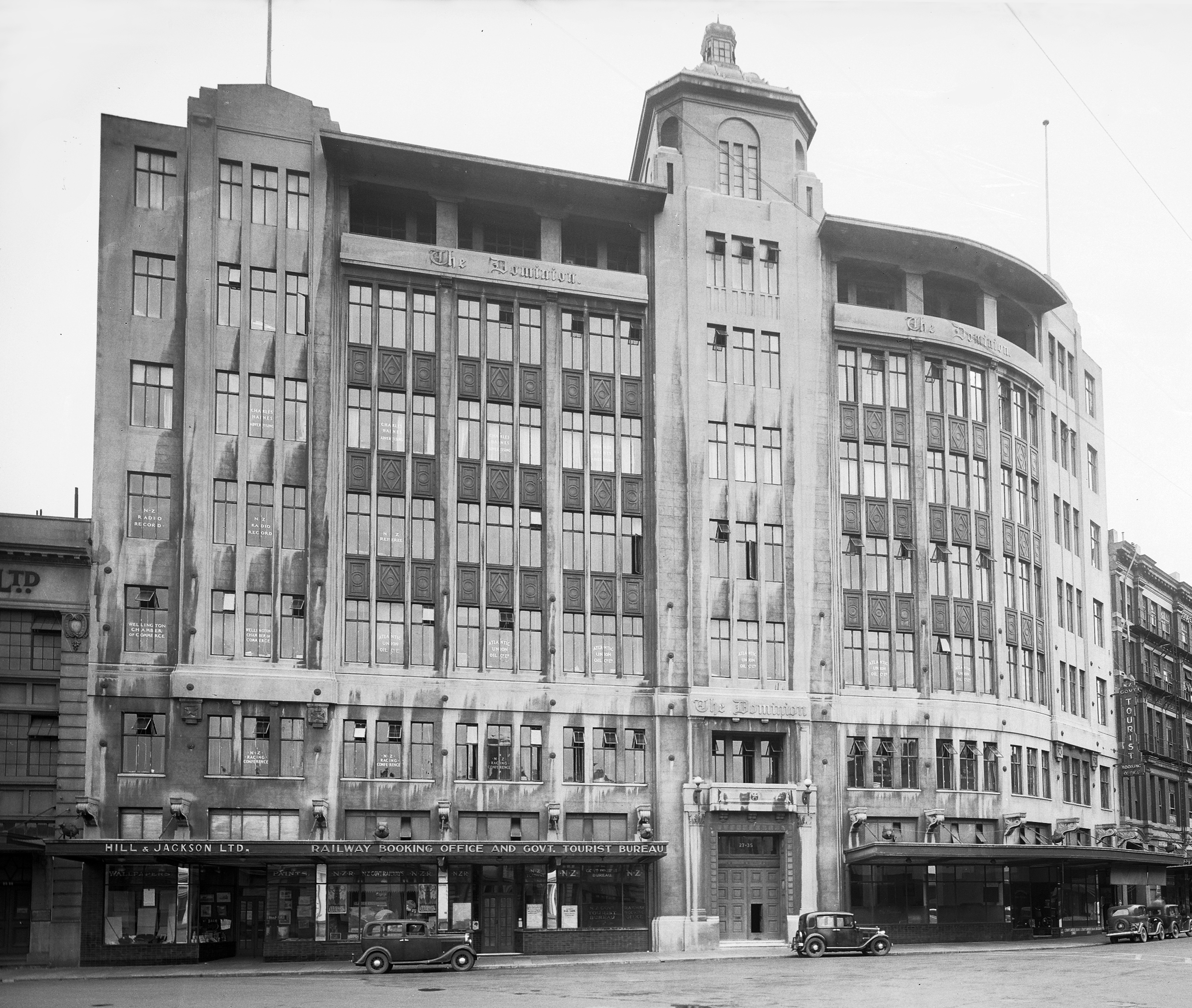 Cropped and digitally edited version of original